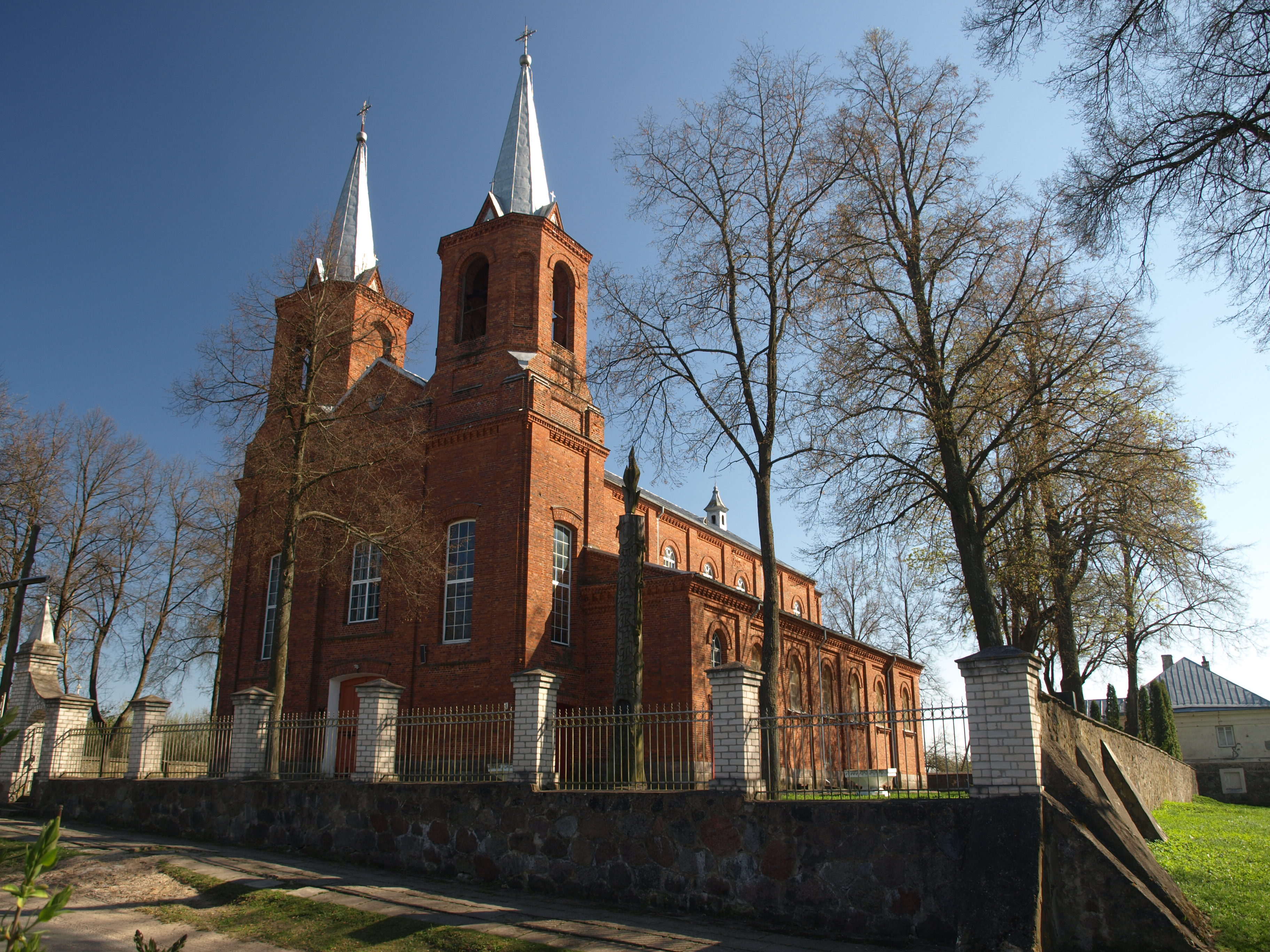 Adutiskischurch